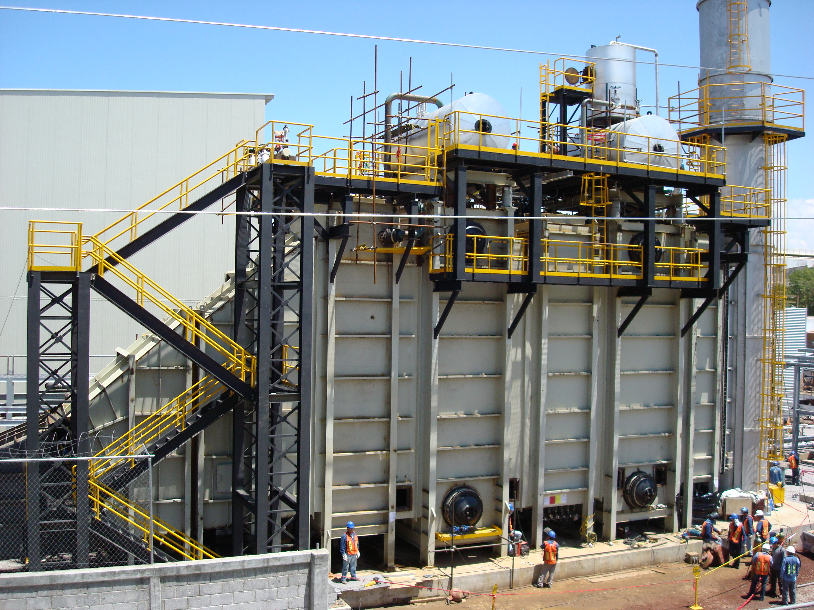 A photo of a Modular HRSG